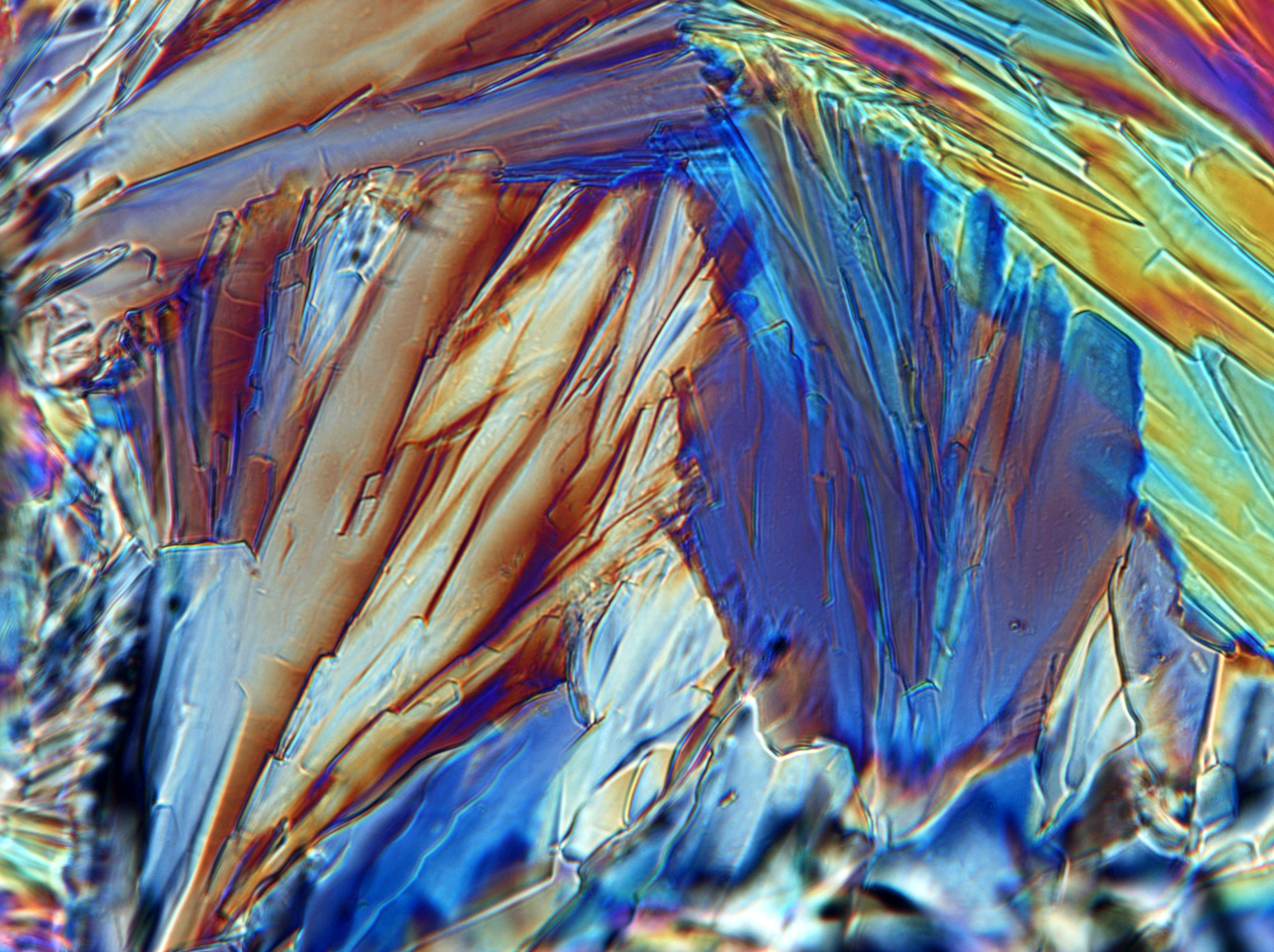 Crystallization of glucose, Nomarski differential interference contrast (1650x magnification in A3)